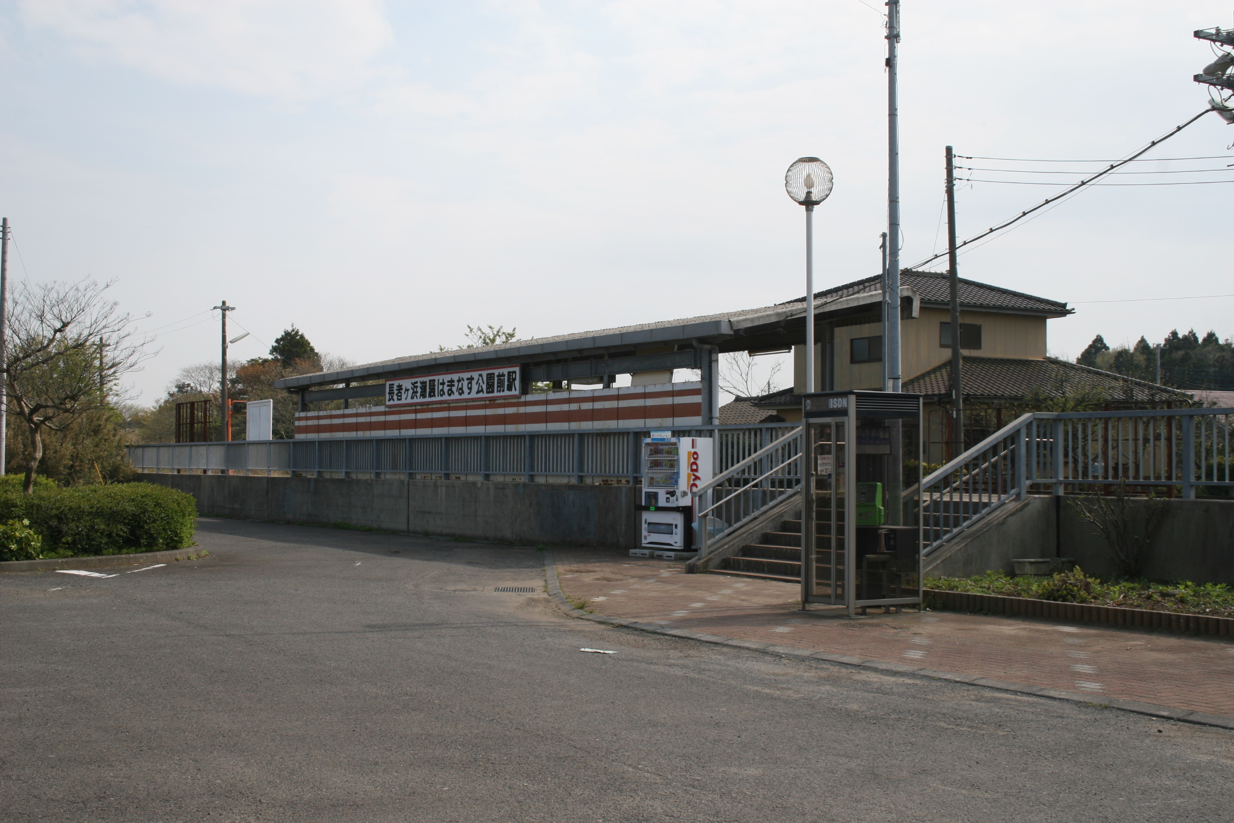 Chojagahama Shiosai Hamanasukoenmae Station in Kashima, Ibaraki, Japan